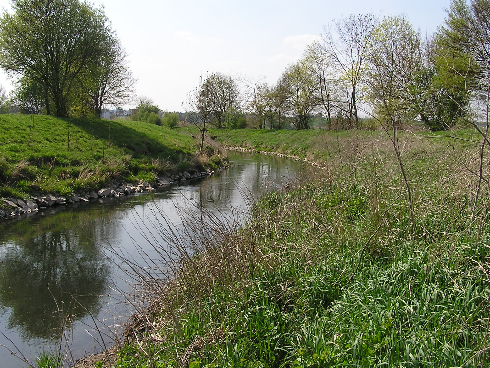 The Nidda near Woellstadt